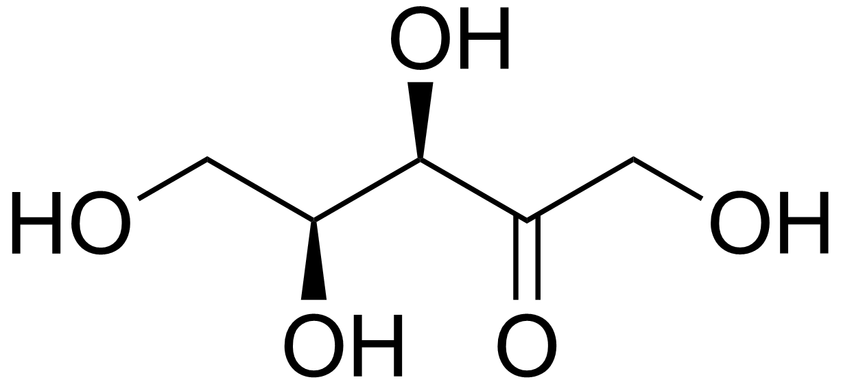 chemical structure of L-xylulose